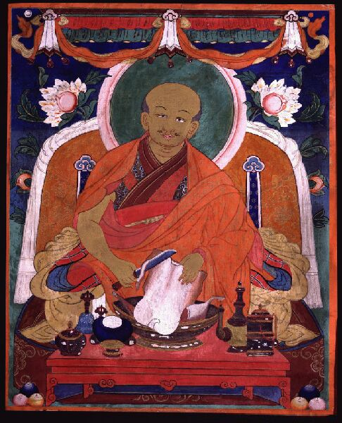 Zanabazar (Yeshe Dorje, 1635-1723), the spiritual head of Tibetan Buddhism for the Khalkha in Outer Mongolia. Also a famous sculptor and inventor of the Soyombo script